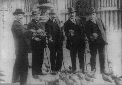 John Hugo Ross, Unknown, McCaffry, Mark Fortune and Thomson Beattie feed pigeons in St. Mark's Square, Venice, March 1912